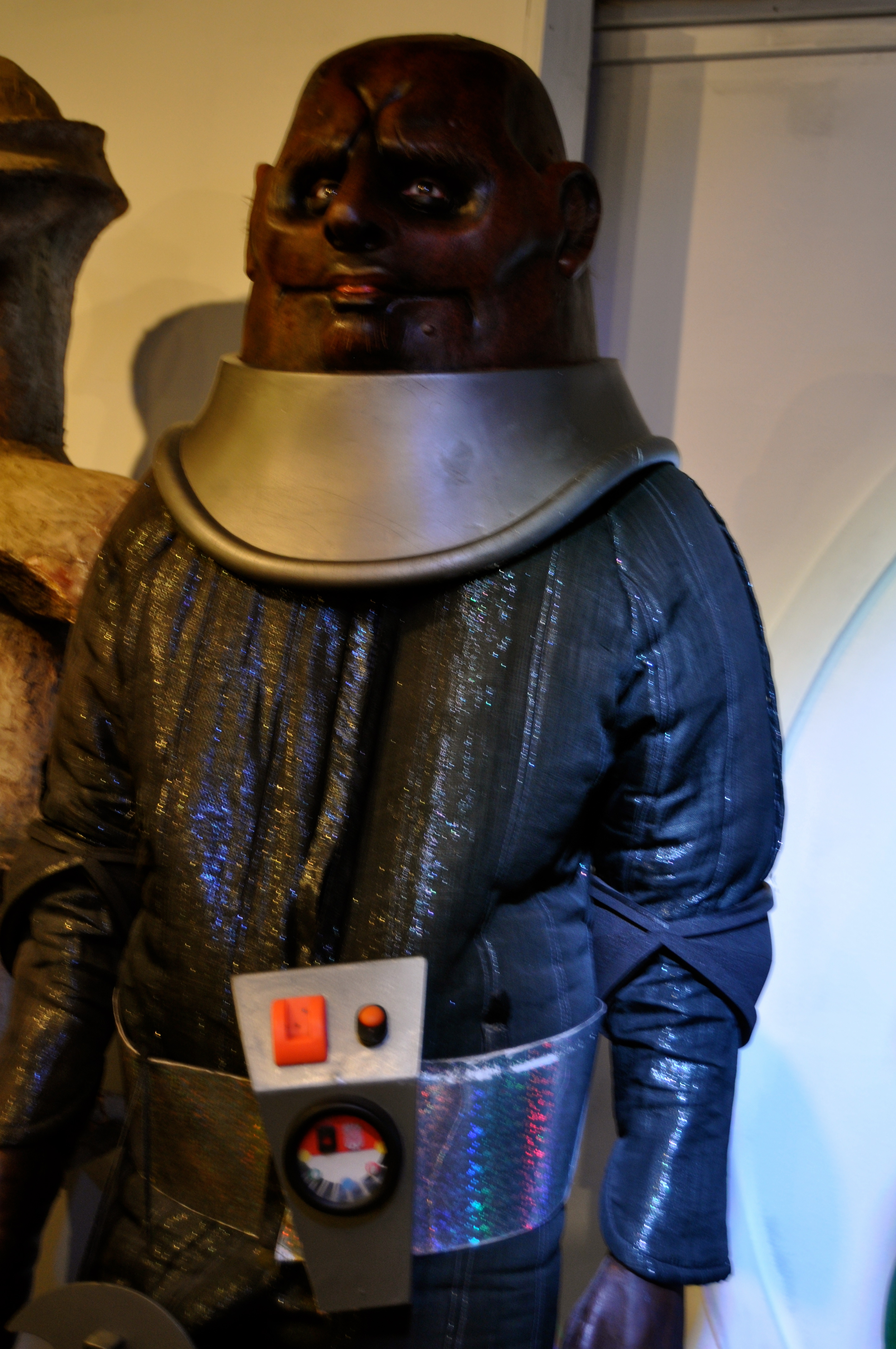 DWE Cardiff Bay, Port Teigr November 2016 Doctor Who Experience